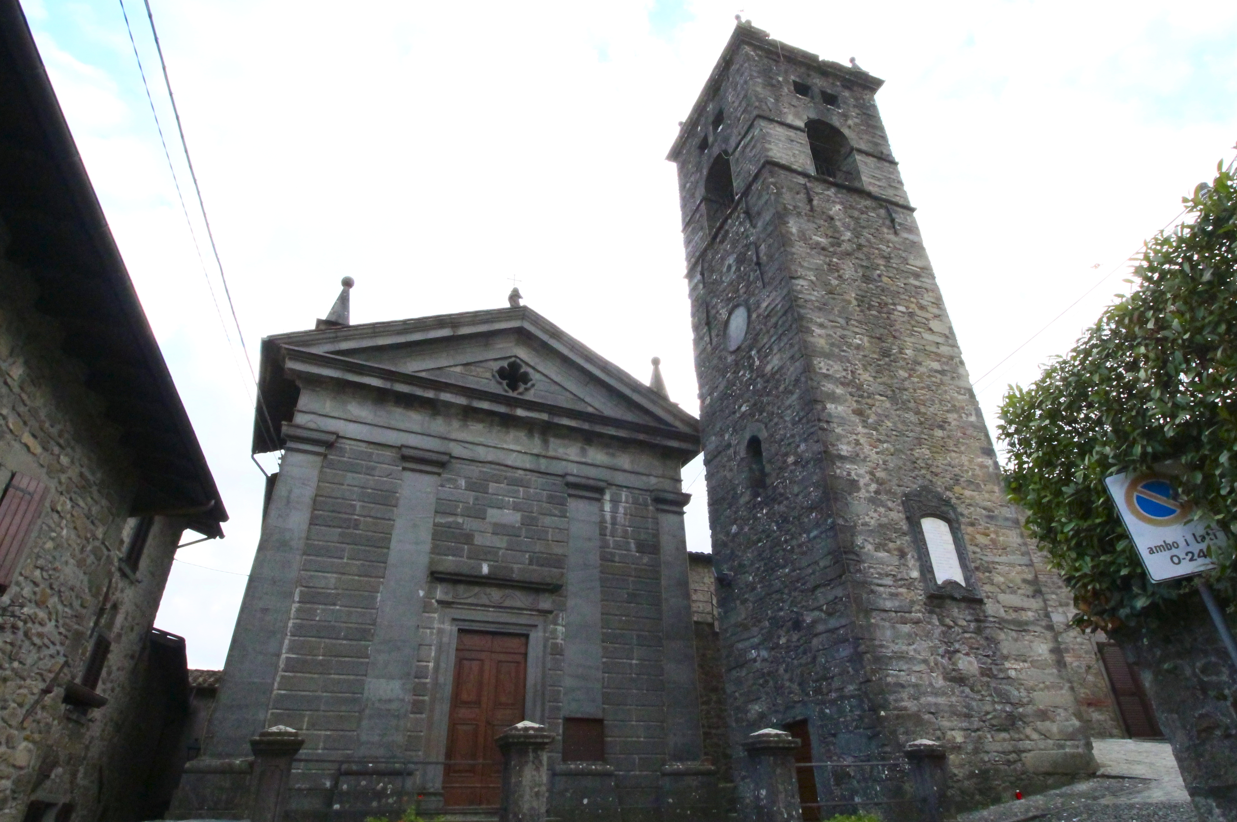 Church San Martino, Sillicagnana, hamlet of San Romano in Garfagnana, Province of Lucca, Tuscany, Italy